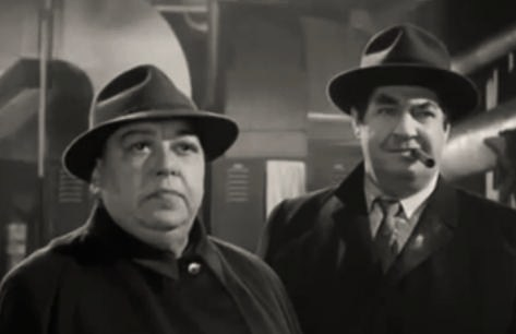 Madame Spivy & Stanley Adams in Requiem for a Heavyweight - trailer (cropped screenshot)